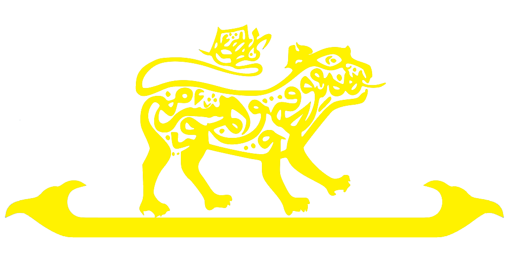 Flag of Kelantan Sultans (1912-1923)